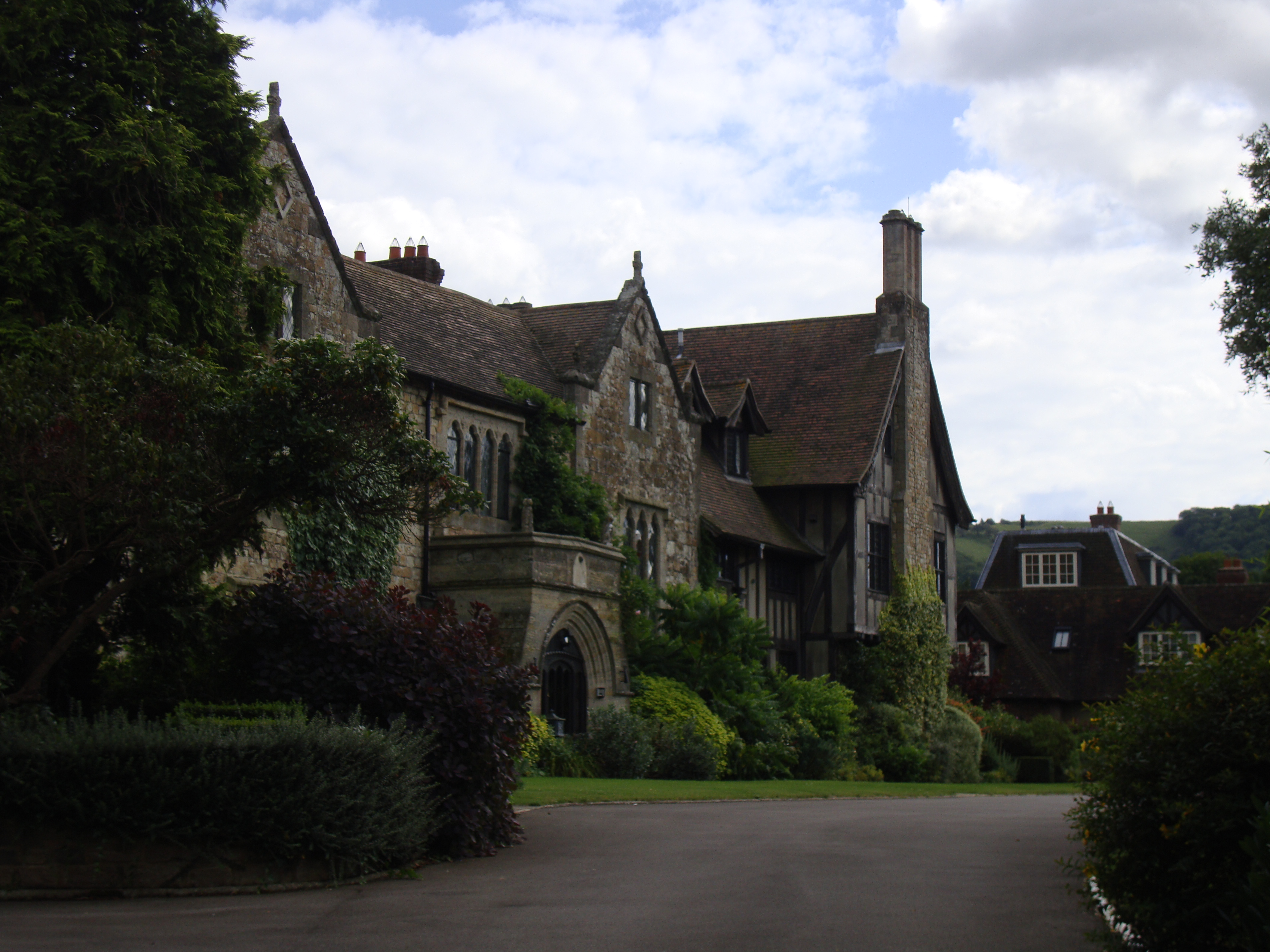 Photograph of St Joseph's Abbey, West Sussex, England